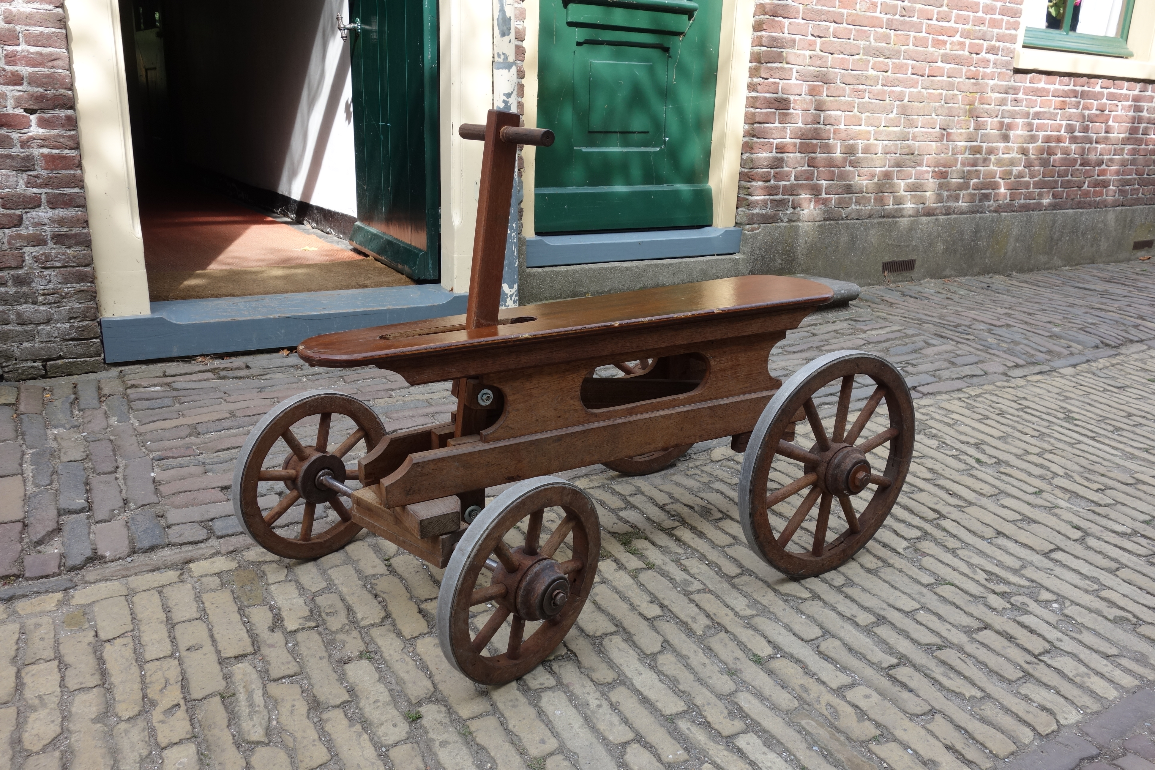 Flying Dutchman (velocipede) at the Zuiderzee Museum in Enkhuizen